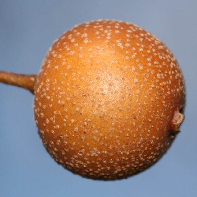 Callery pear (Pyrus calleryana Decne.) fruits in Mount Tado, Yōrō Mountains, Kuwana, Mie, Japan.